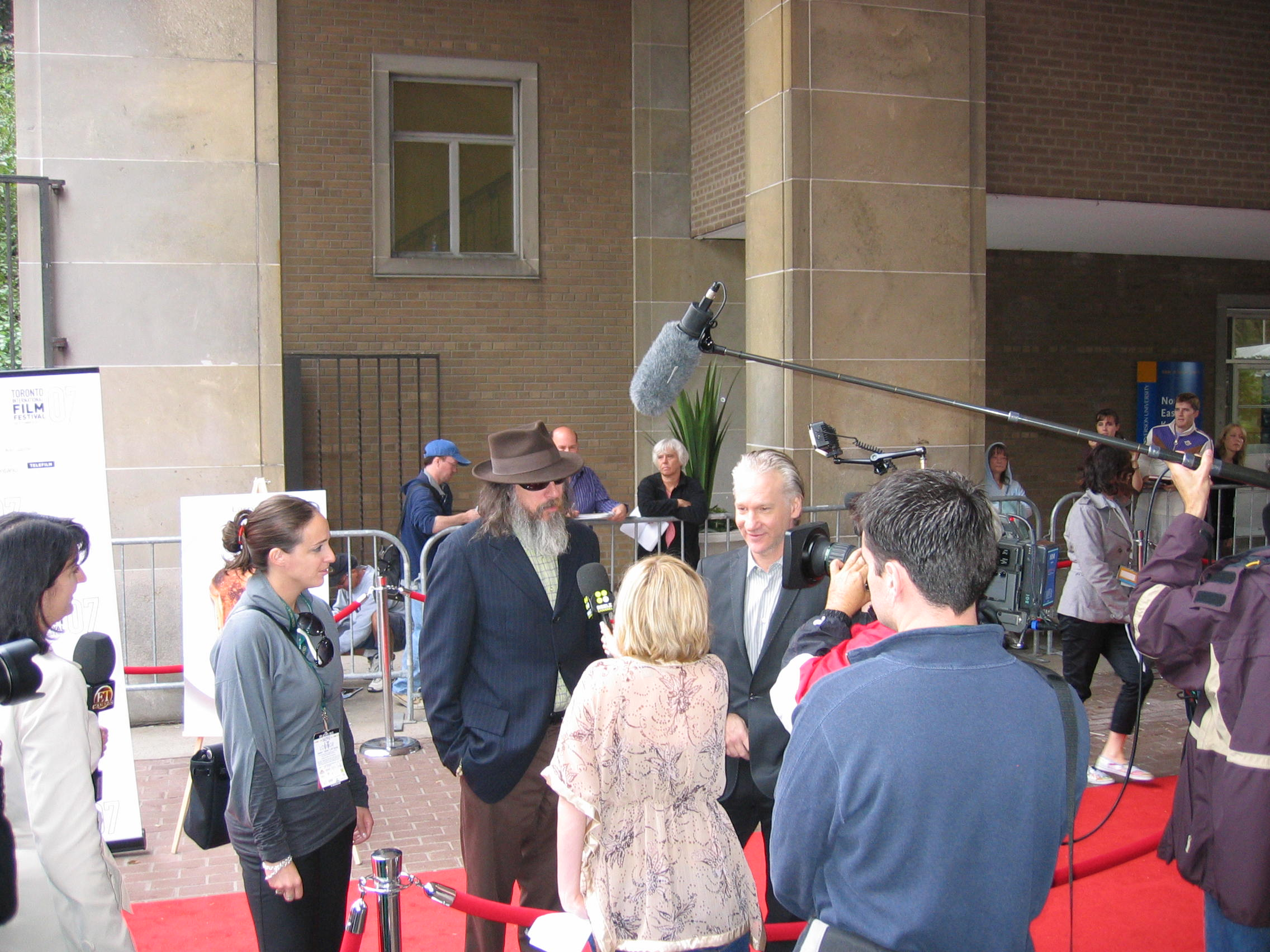 Larry Charles and Bill Maher talk to the press about their upcoming film Religulous outside Ryerson University during the 2007 Toronto International Film Festival.